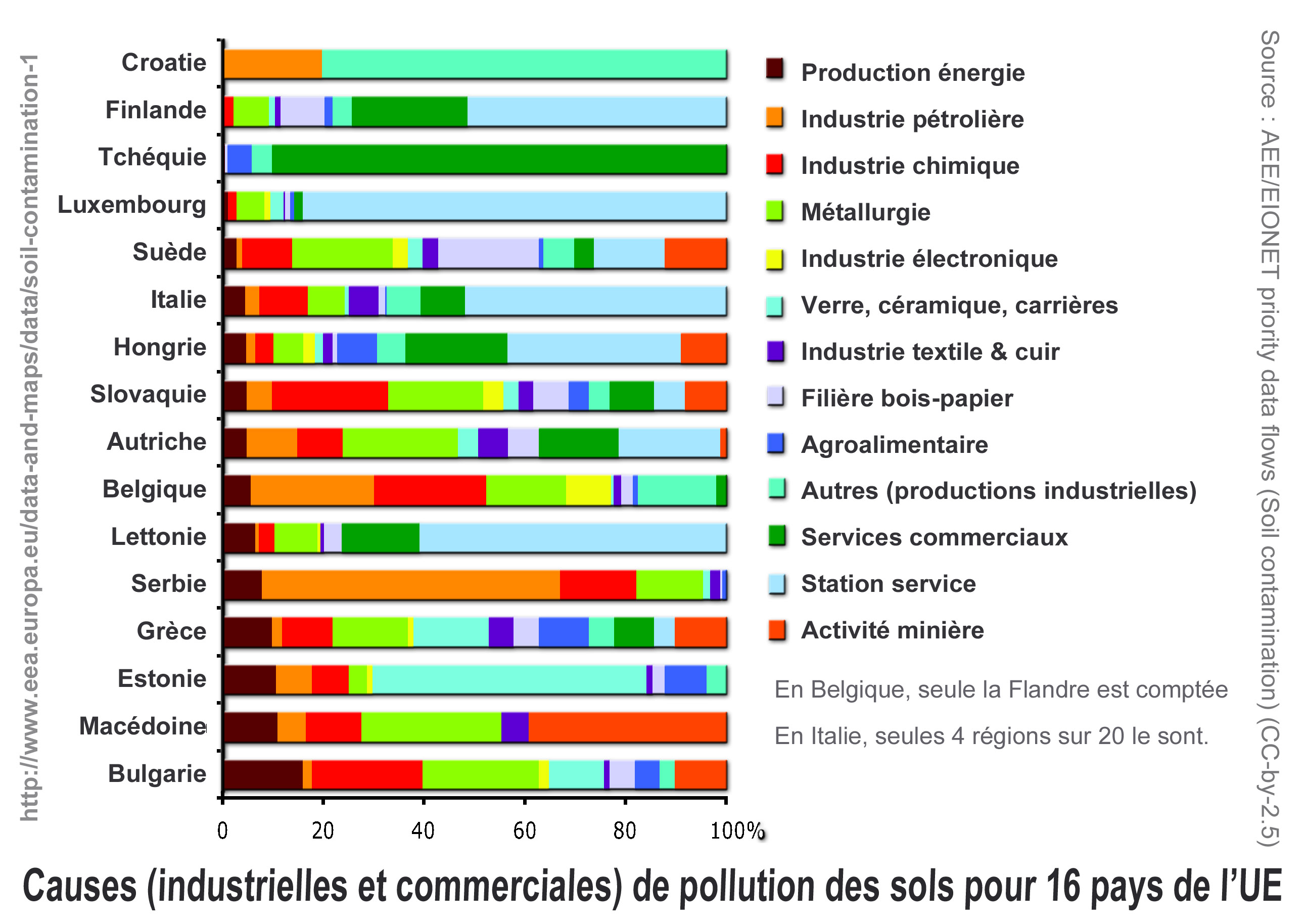 The graph shows a breakdown of the industrial and commercial activities causing soil contamination as % of the number of sites for each branch of activity